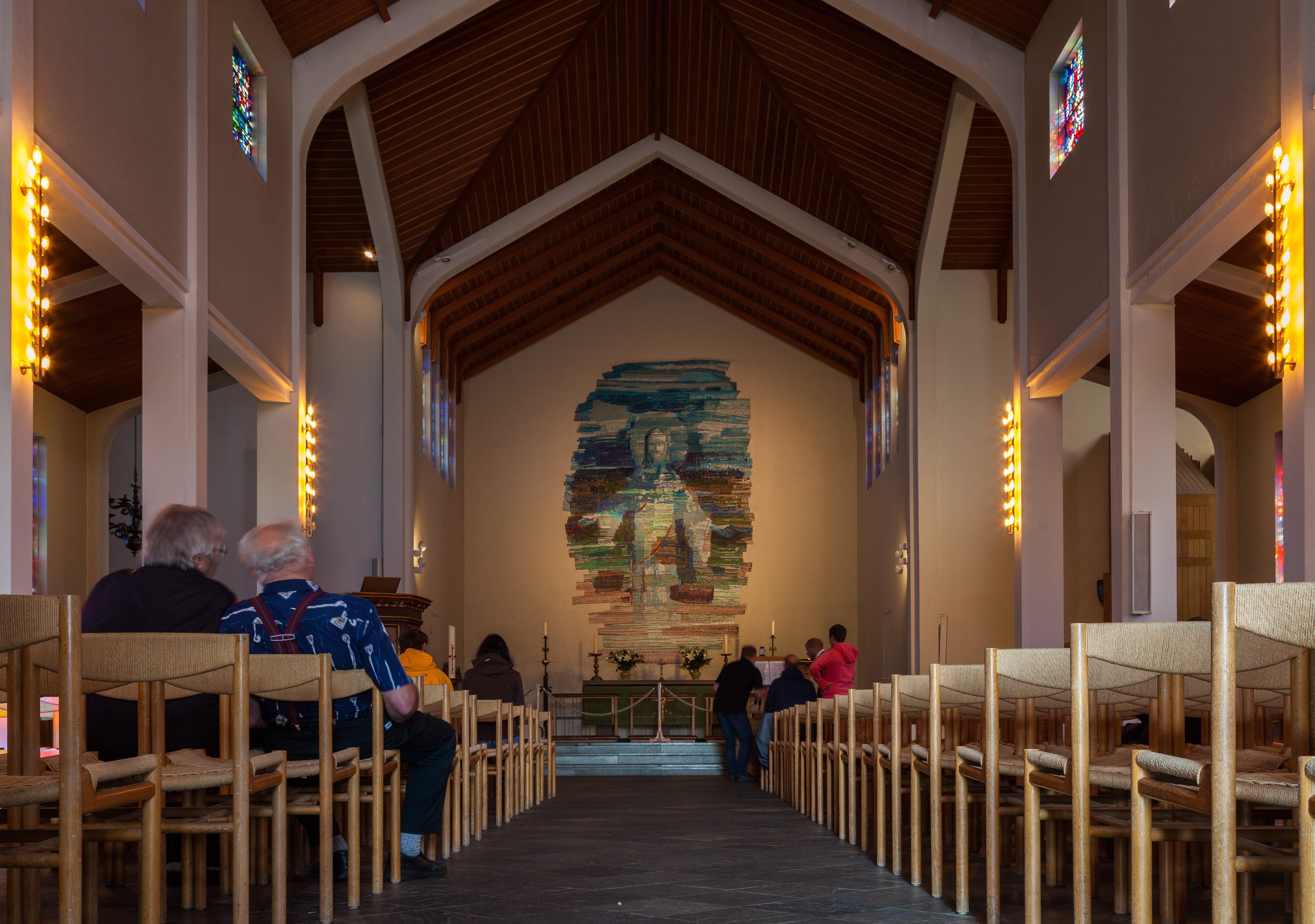 Skálholt cathedral, Suðurland, Iceland